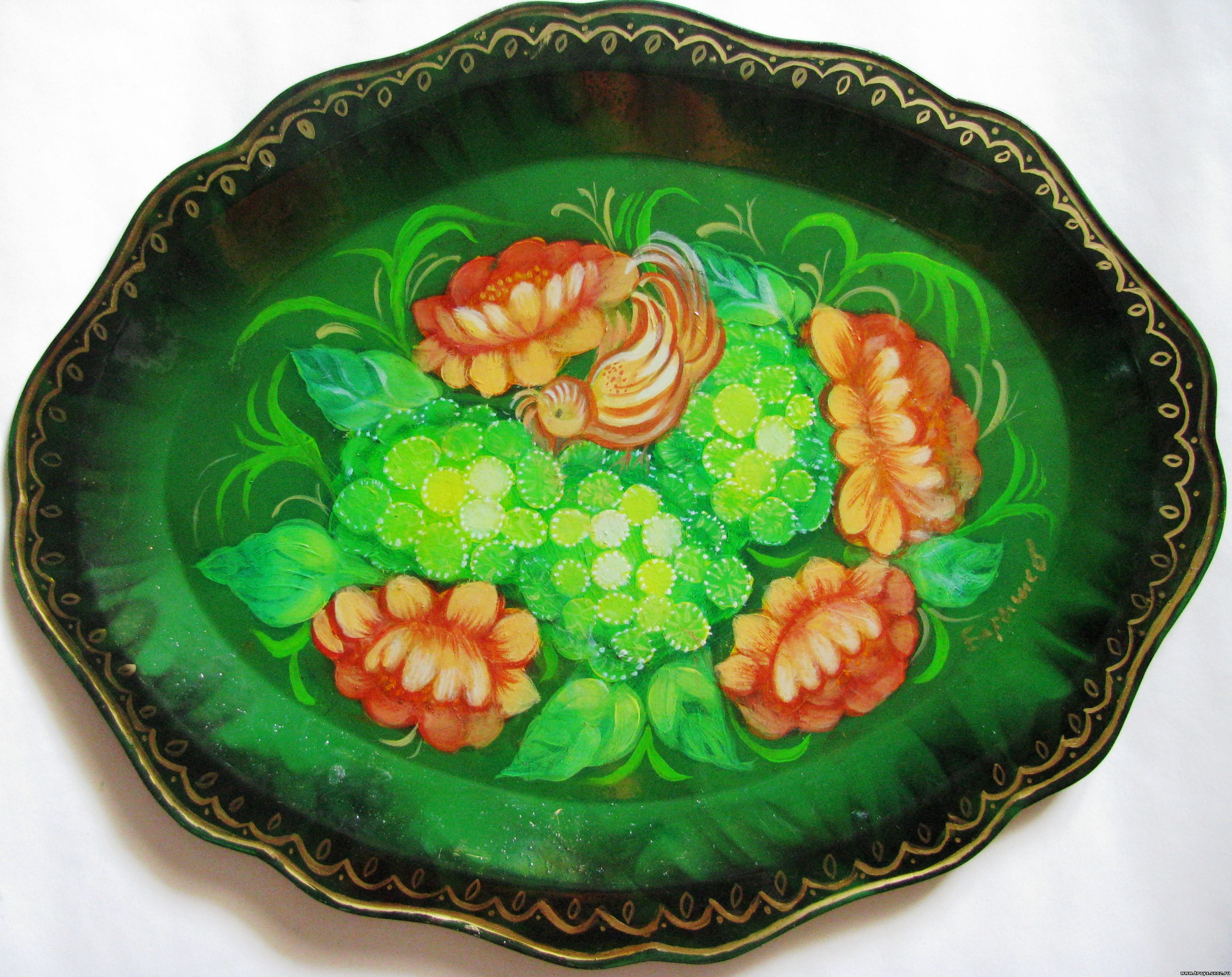 Жостовский поднос (Hand-made)